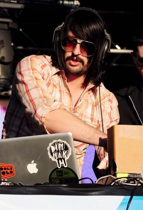 Parklife Festival 2009